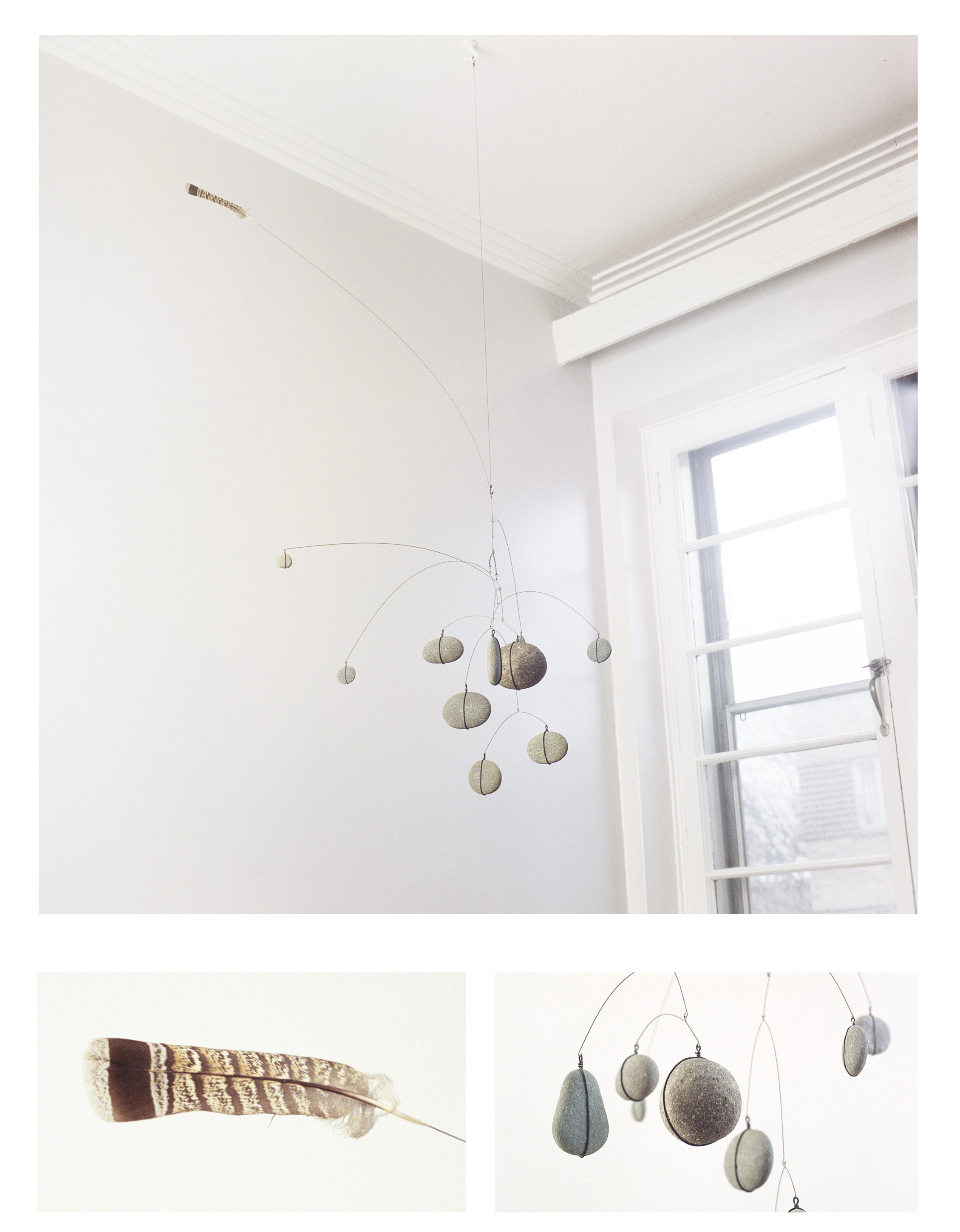 Flock of Rocks Escaping (2000) Mobile by Stephen H Kawai (